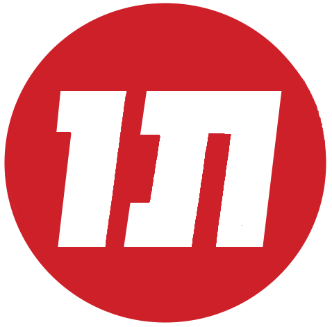 Logo used by Ahdut HaAvoda-Poaeli Tzion